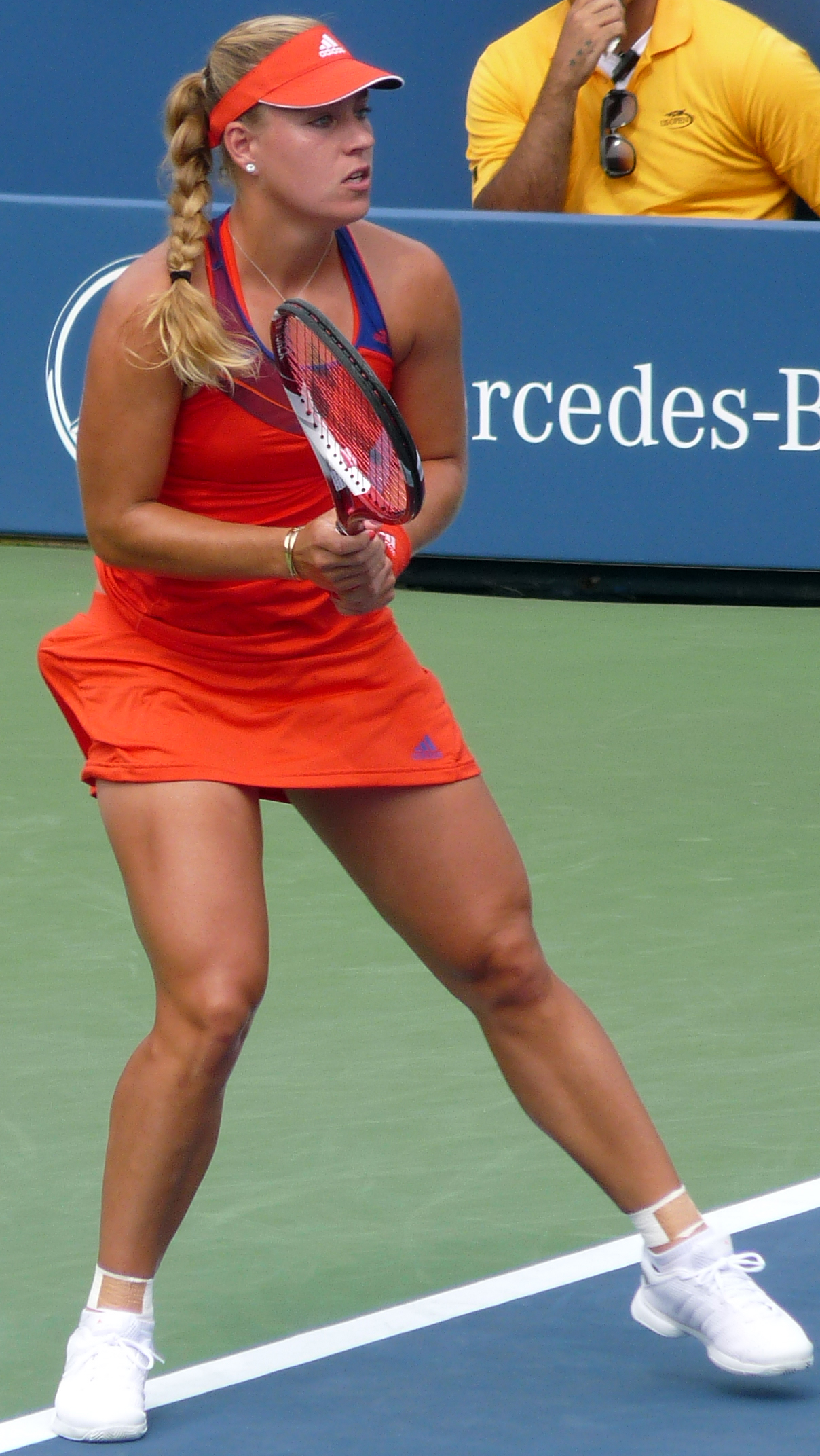 US Open 2013 - Women's Singles 4th Round (Louis Armstrong Stadium) - Carla Suárez Navarro [18] vs. Angelique Kerber [8] - 4–6, 6–3, 7–6(7–3)